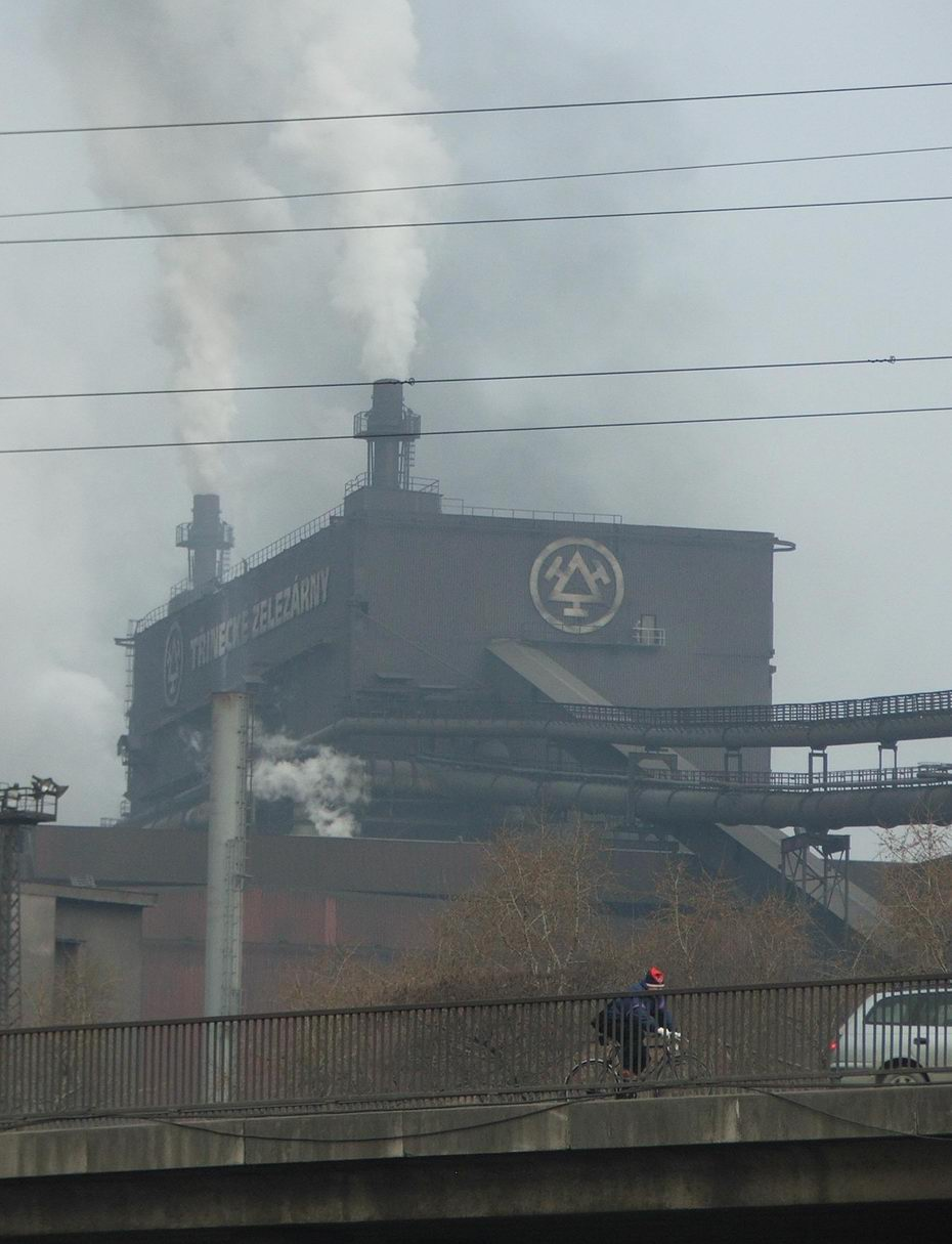 Třinecké železárny (Třinec iron works), Moravian-Silesian Region, Třinec, Czechia